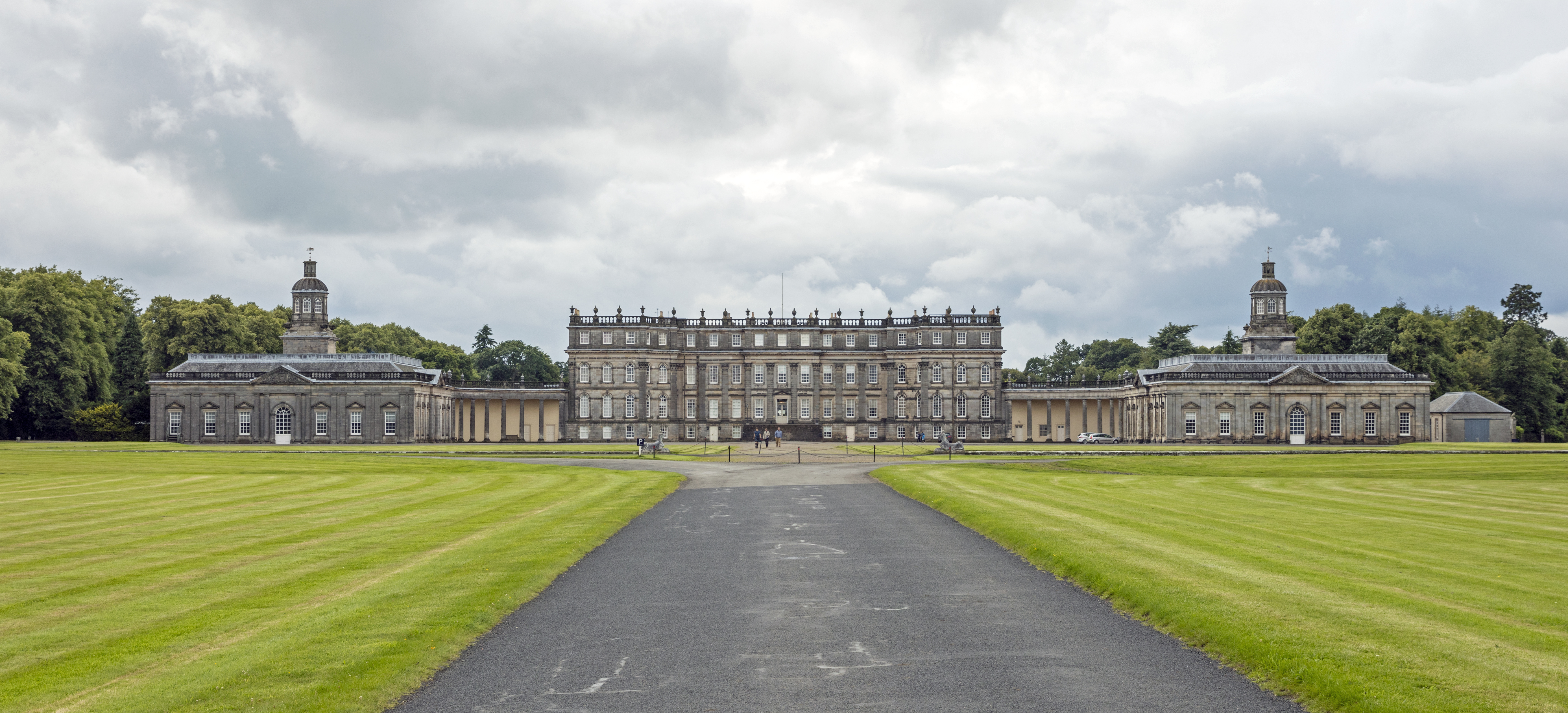 Hopetoun House Wikidata has entry Q1627581 with data related to this item.